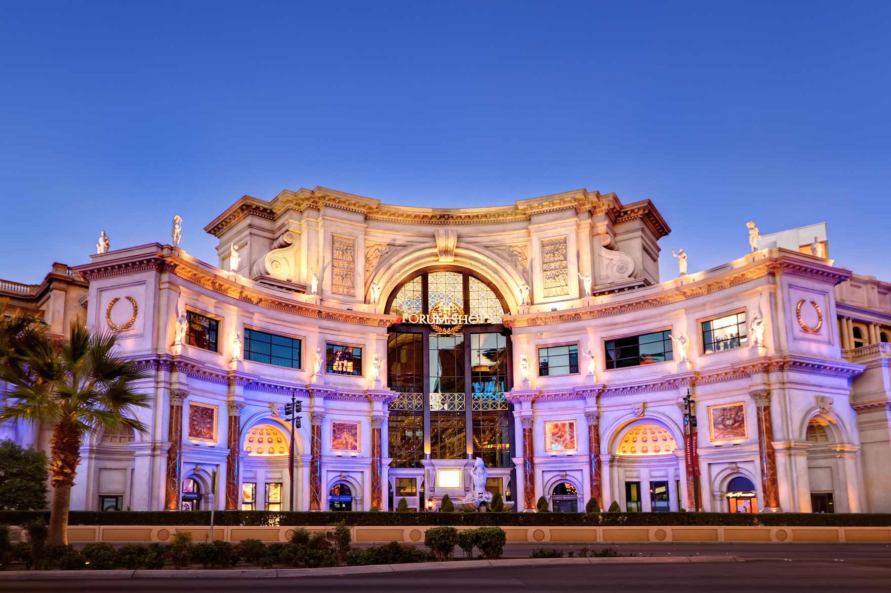 A view of the Caesar's Palace Forum Shops just after sunrise. Sunrise and night are very different in Las Vegas, as one would expect. There's nobody on the street at sunrise, except for a few people who are just calling it a night. The building is beautifully lit with purple light. ISO 100, 11mm, f6.3, (0.1, 0.5, 1.6) sec. Processed as an HDR using Photomatix Exposure Fusion. This gave a bit more detail in the shadows and inside the building.